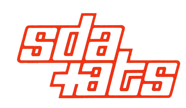 former Logo of SDA-ATS